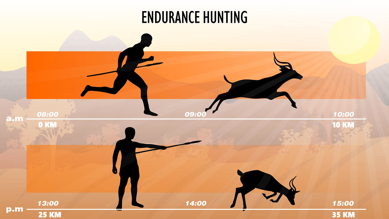 Timelapse of Endurance Hunting presented by Fiann Paul during TEDx talk.